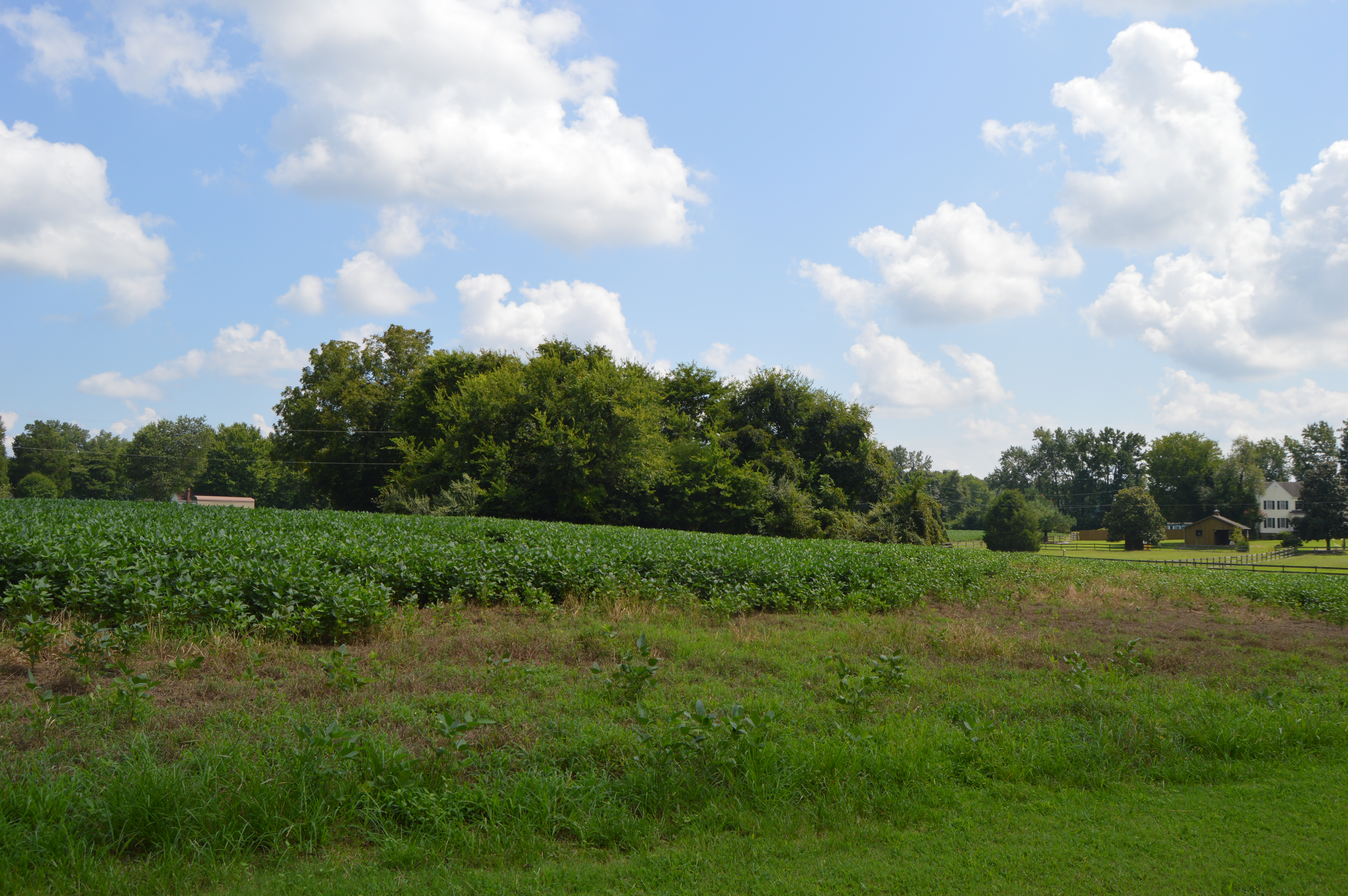 Overview of the birthplace of Patrick Henry, located at the end of Studley Farm Drive at Studley in Hanover County, Virginia, United States. Now an archaeological site, the birthplace is listed on the National Register of Historic Places.